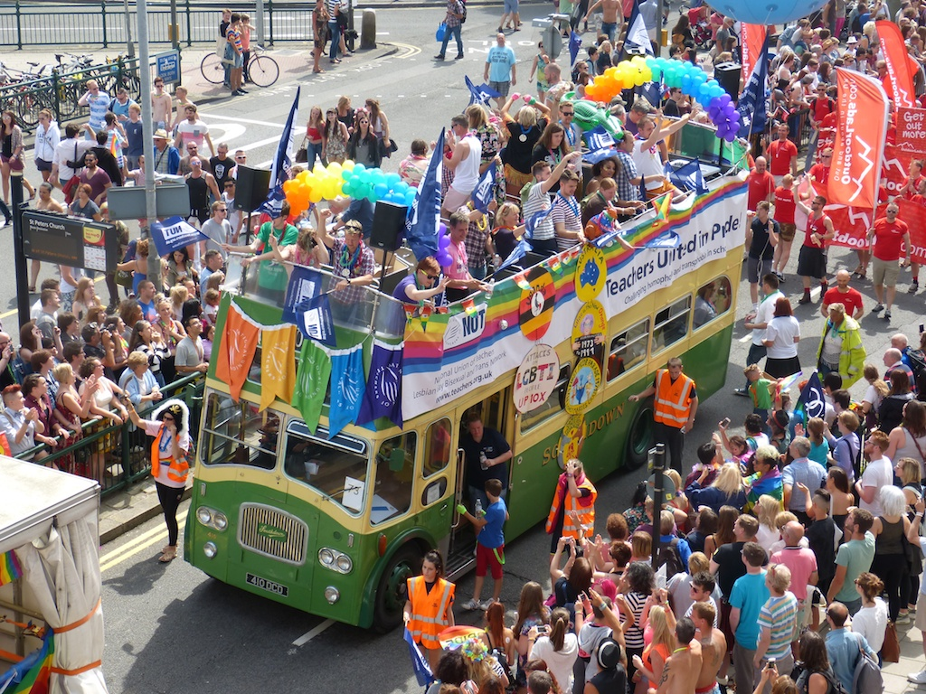 Even amid all of this Gaiety the Southdown livery looks colourful and cheerful